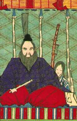 Detail of Tawara Hidesato - "Dai Nippon Meisho Kagami" (Mirror of the Famous Generals of Japan), by Yoshitoshi Tsukioka (Taiso) (1839-1892). Depicted is Tawara no Toda Hidesato. When Hidesato met Taira no Masakado, Masakado was very rude and Hidesato decided to confront Masakado. Caution : This portrait isn't of Tennō Suzaku.